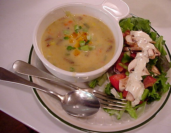 Mr. EraPhernalia Vintage's plate. Served on thrifted Shenango restaurant ware china plate with cream colored band and forest green band; and thrifted Corning Ware "grab it" tab-handled bowl. Thrifted heavy-duty stainless unmatched, but similarly-shaped, fork and tablespoon. Next to my Bakelite-handled flatware I like these pieces second. Wish I could find more of it. It looks like something that would have been used in commercial cafeterias, schools or military mess halls. Sturdy and well worn. Strangely, I'd rather have something used in my house that's been previously lived-with and has had a history; whether I have knowledge of that history is unimportant to me.